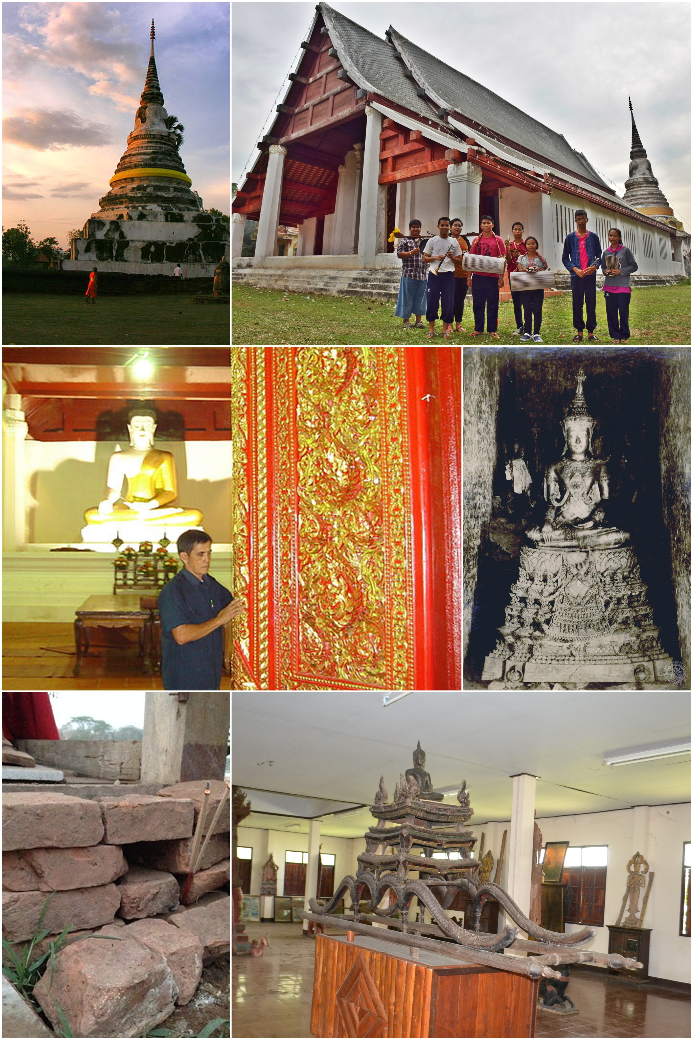 Montage of Mueang Sawangkaburi images on Commons.